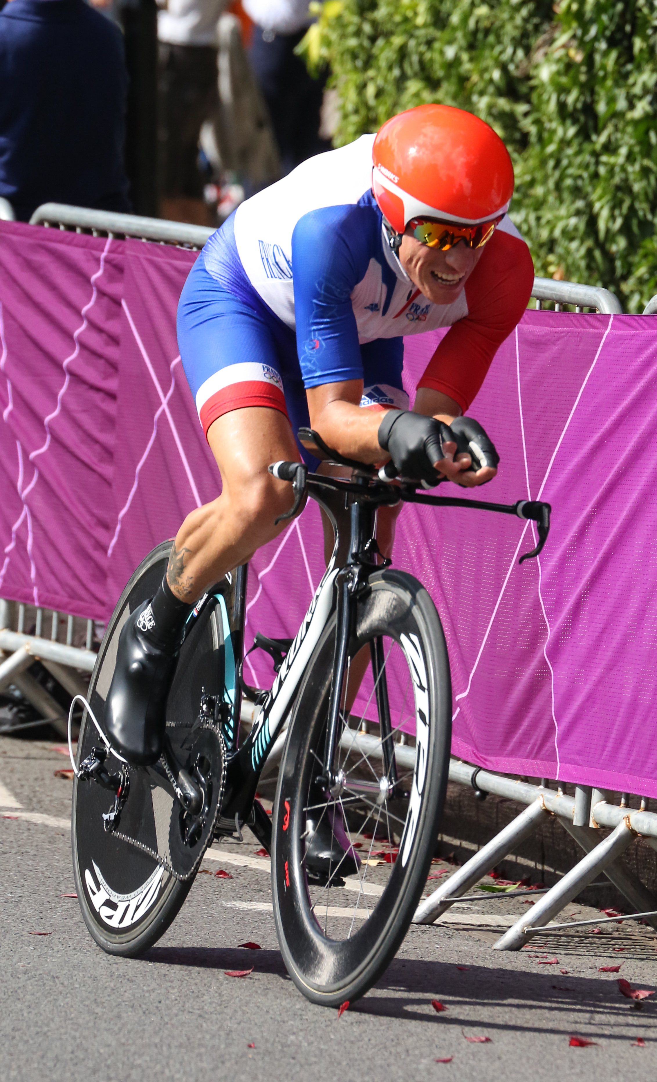 Sylvain Chavanel competing in the London 2012 Men's Olympic Time Trial.